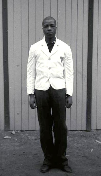 Information added by Wikimedia users.